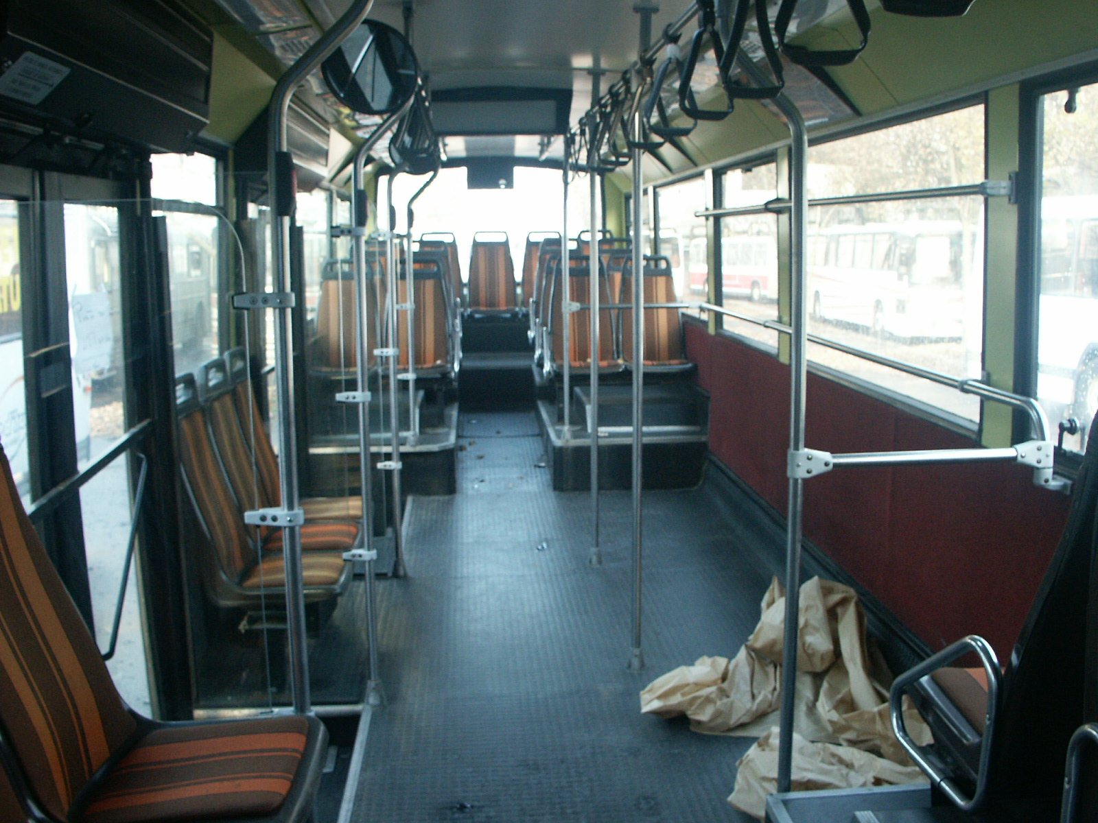 The interior of an Heuliez GX87S (n°500 of the VFD).